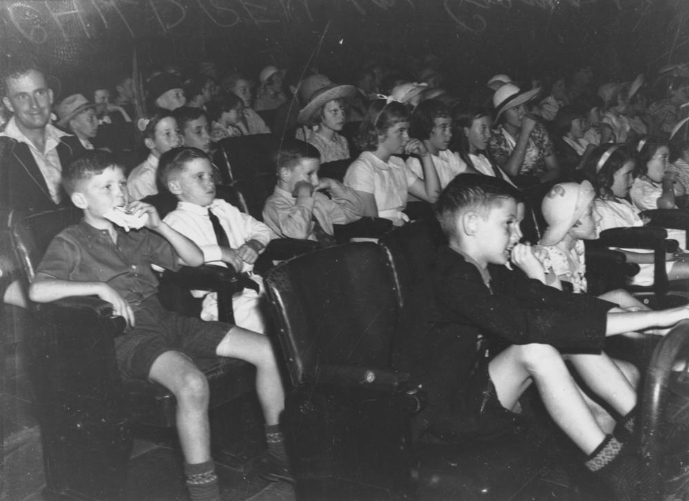 Children inside the Cremorne Theatre, Brisbane, 1938 This image depicts a a large group of children seated in the stalls of the Cremorne Theatre, Brisbane.